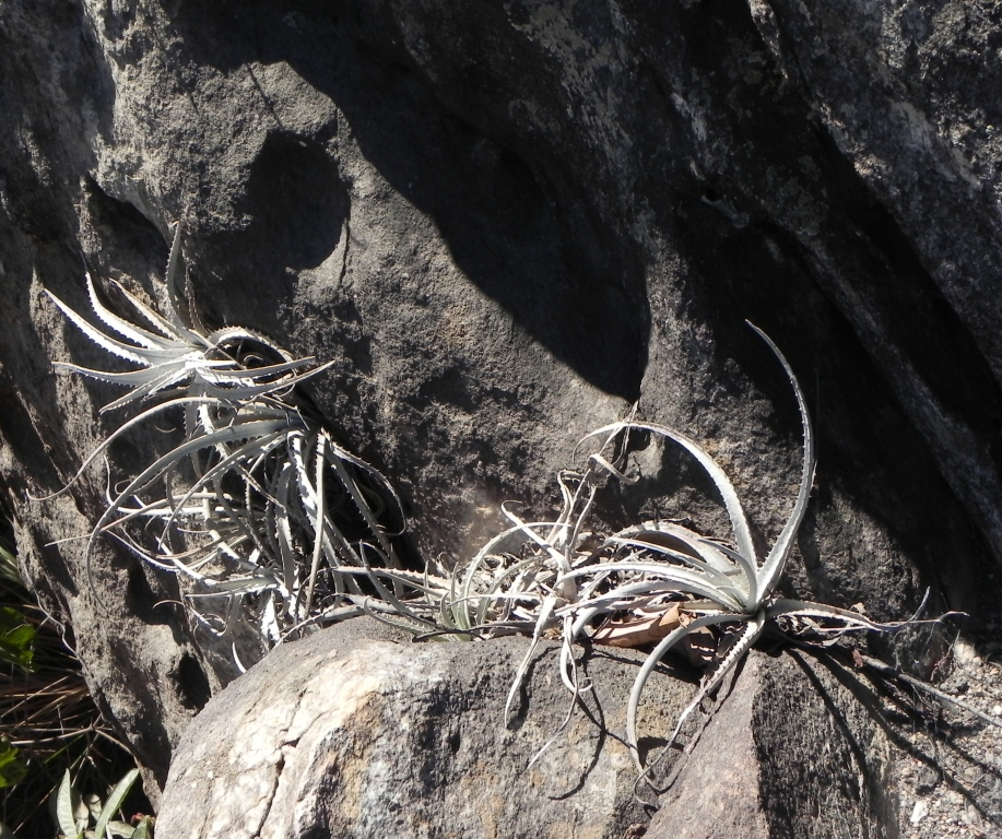 Cryptanthus leopoldo-horstii Rauh - BROMELIACEAE - Diamantina - Minas Gerais - Brasil.